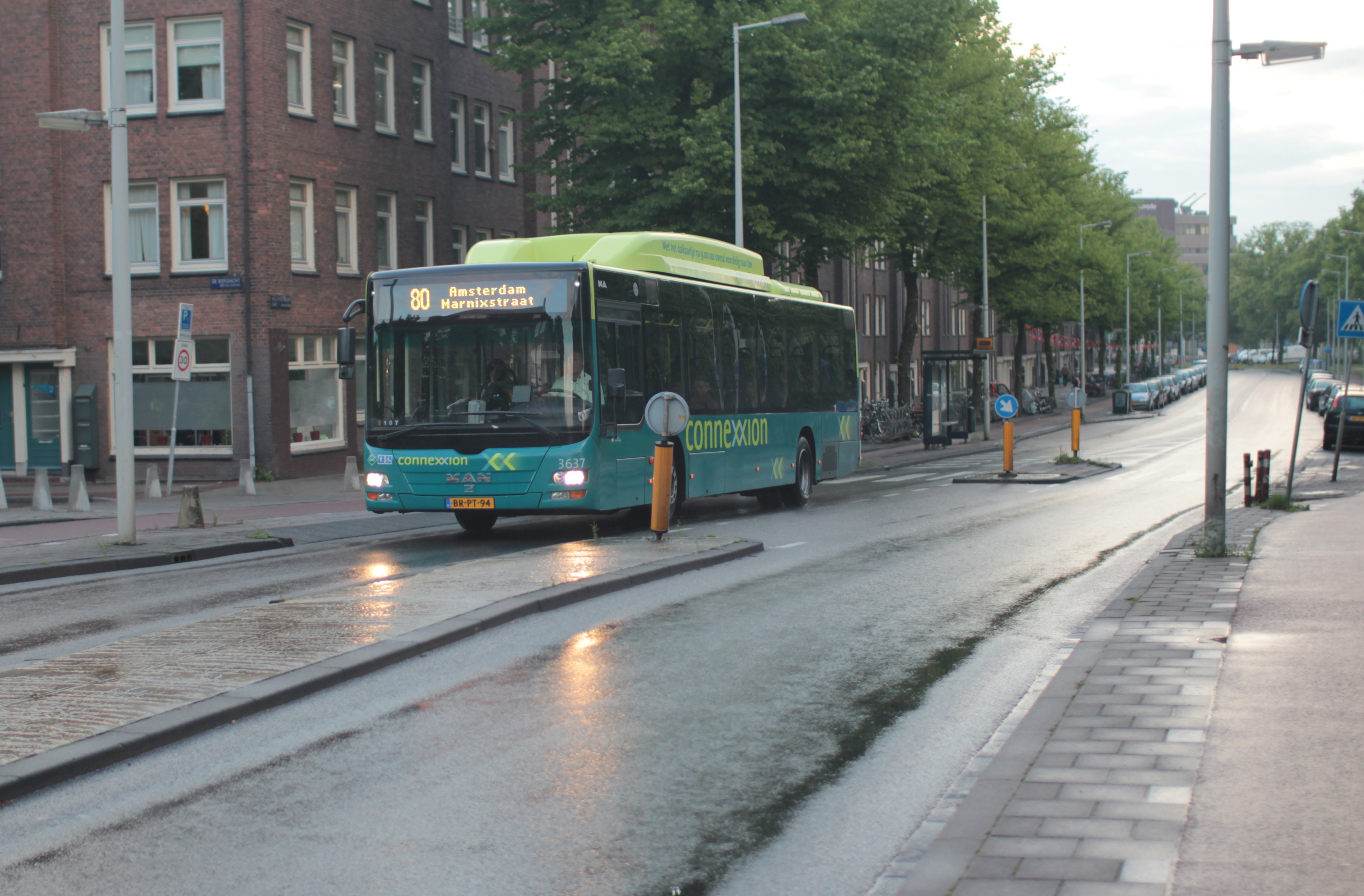 bus 80 from zandvoort to amsterdam passes over the anna van saksen bridge in Amsterdam. june 2012